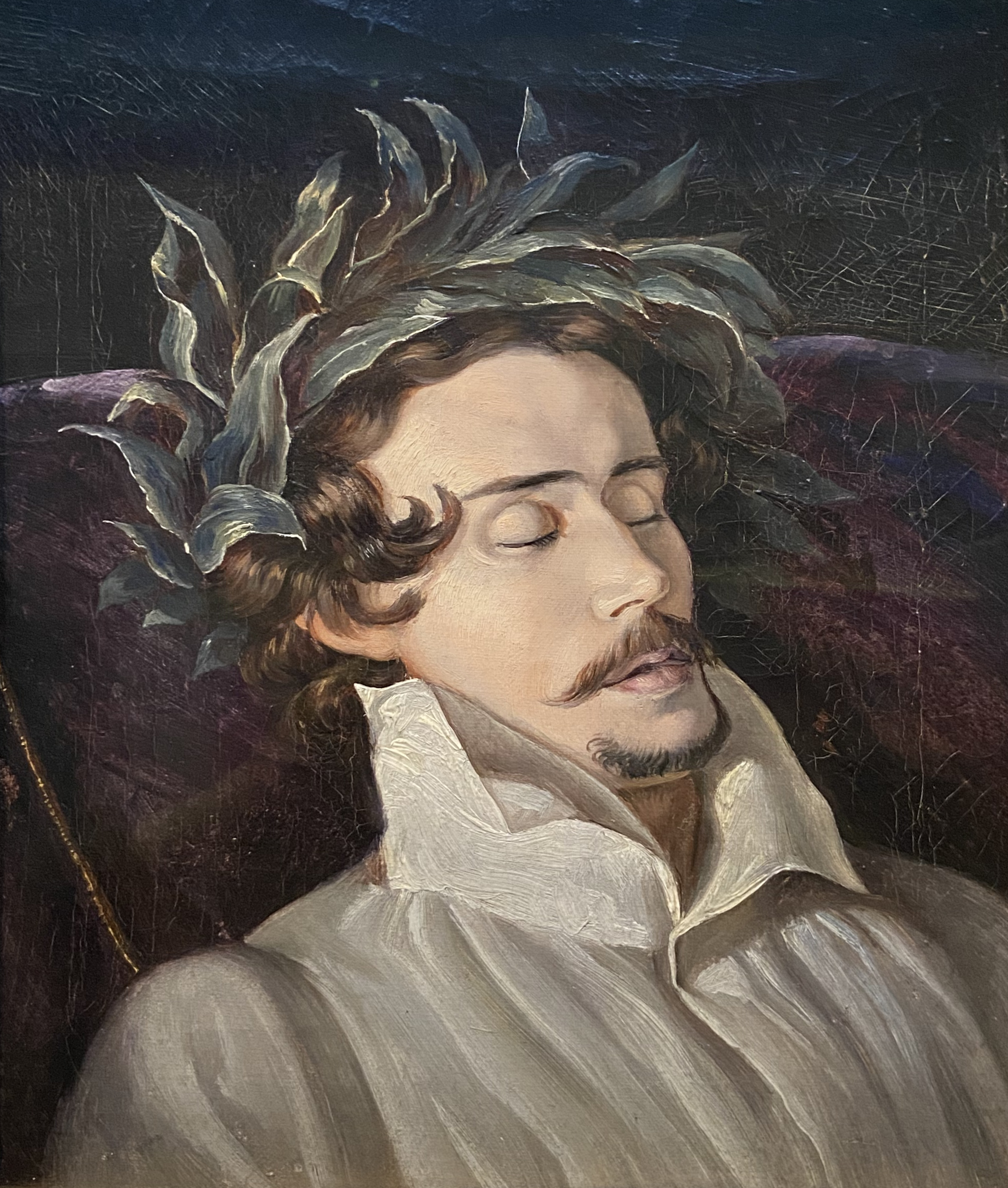 The Painter Erwin Speckter on his Deathbed. Painting by Louis Asher (1804–1878), oil on canvas 1835. Kunsthalle, Hamburg (Germany)